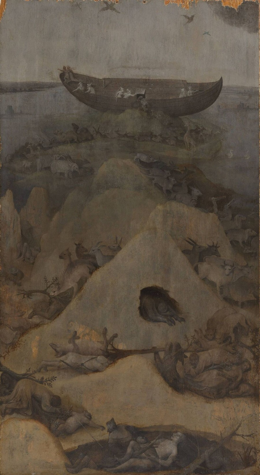 Fragment (inner right wing) of a triptych. See File:The Hell and the Flood P4.jpg for the outer right wing and File:The Hell and the Flood P1.jpg and File:The Hell and the Flood P3.jpg for the left wing.